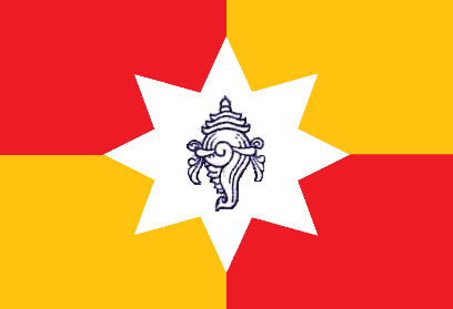 Historical Travancore flag. Its use has been recorded from Martanda Varma's time until into the 19th century